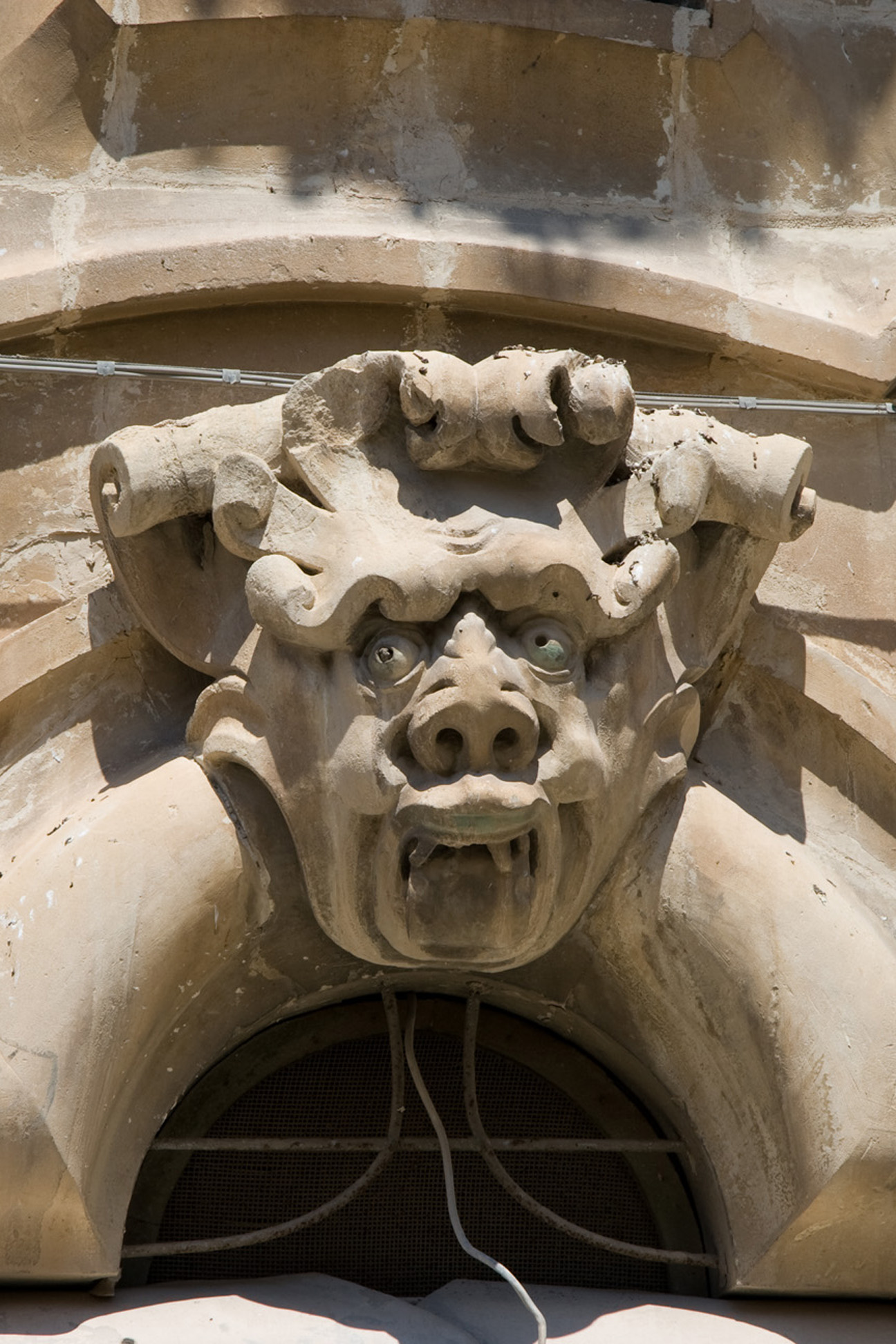 Palazzo Beneventano, Scicli, Sicily, Italy